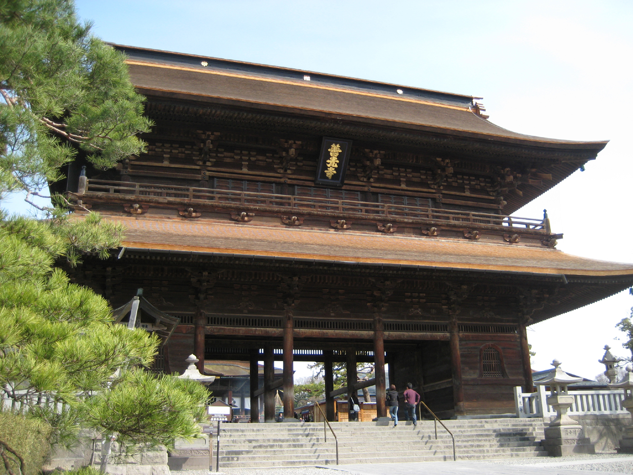 San-mon: main gate of Zenkoji temple at Nagano city Japan.